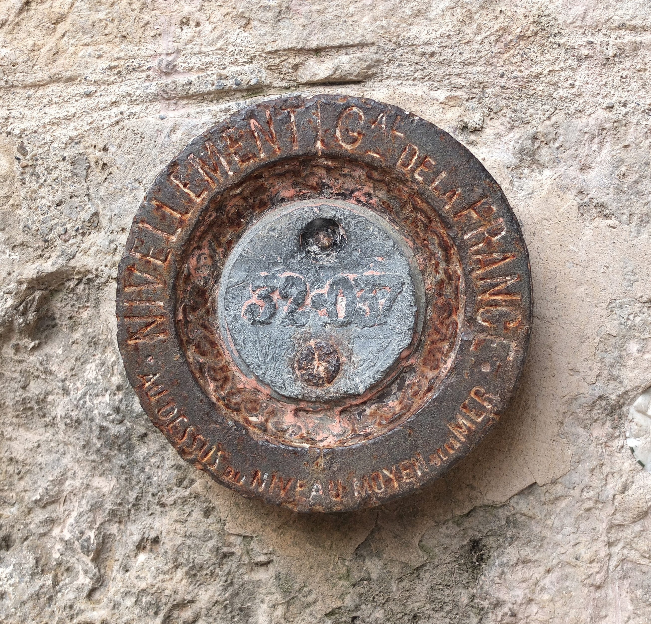 19th century Benchmark of general levelling in France, next to the main portal of Perpignan Cathedral, showing the level of 32 meters above the Mediterranean Sea. These iron seals were introduced by French topographer Paul-Adrien Bourdalouë. In the 19th century, he laid out a network of 15,000 iron seals across France, providing the country's first level-lines.